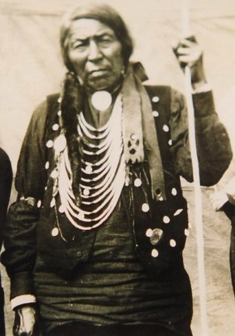 Chief Flying Hawk, The Wigwam, Du Bois, PA, 1929. Other information No.